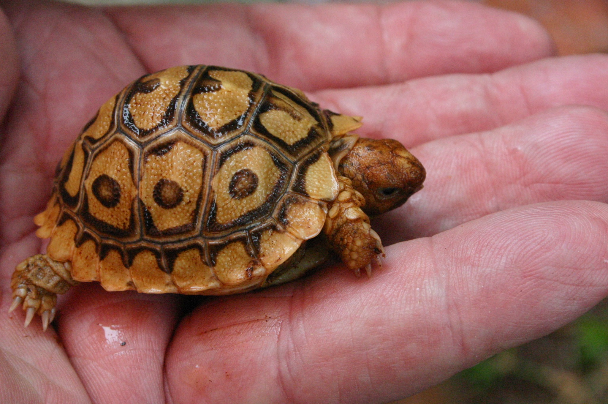 One month-old hatchling at Potgietersrust, Transvaal, South Africa